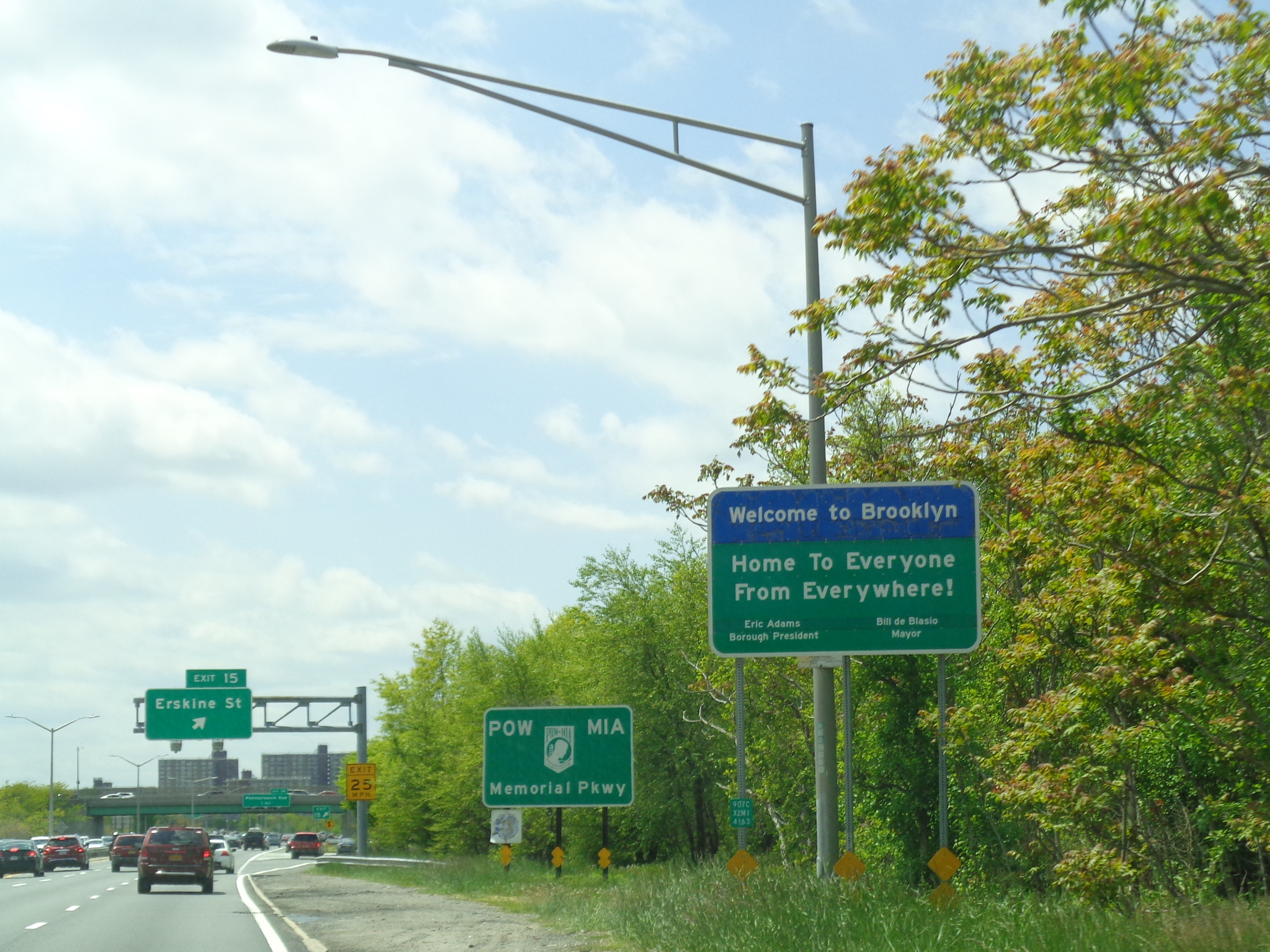 The "Welcome to Brooklyn" sign near the Erskine Street exit of the westbound Belt Parkway in Spring Creek, Brooklyn.